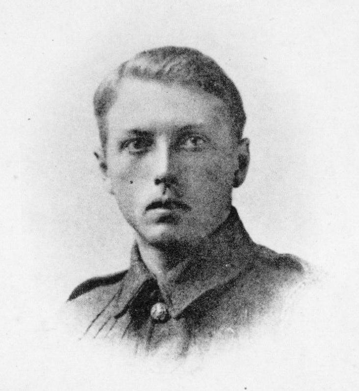 Cape Peninsula Rifles, 1 Regiment, South African Infantry Sgt Burton, a former employee of the National Bank of South Africa in Cape Town,served in German South West Africa and in Egypt before being posted to the Western Front. He was reported missing, aged 21, at Delville Wood on 18 July 1916 during the Battle of the Somme. Sgt Burton is commemorated on the Thiepval Memorial. Faces of the First World War Find out more about this First World War Centenary project at This image is from IWM Collections.